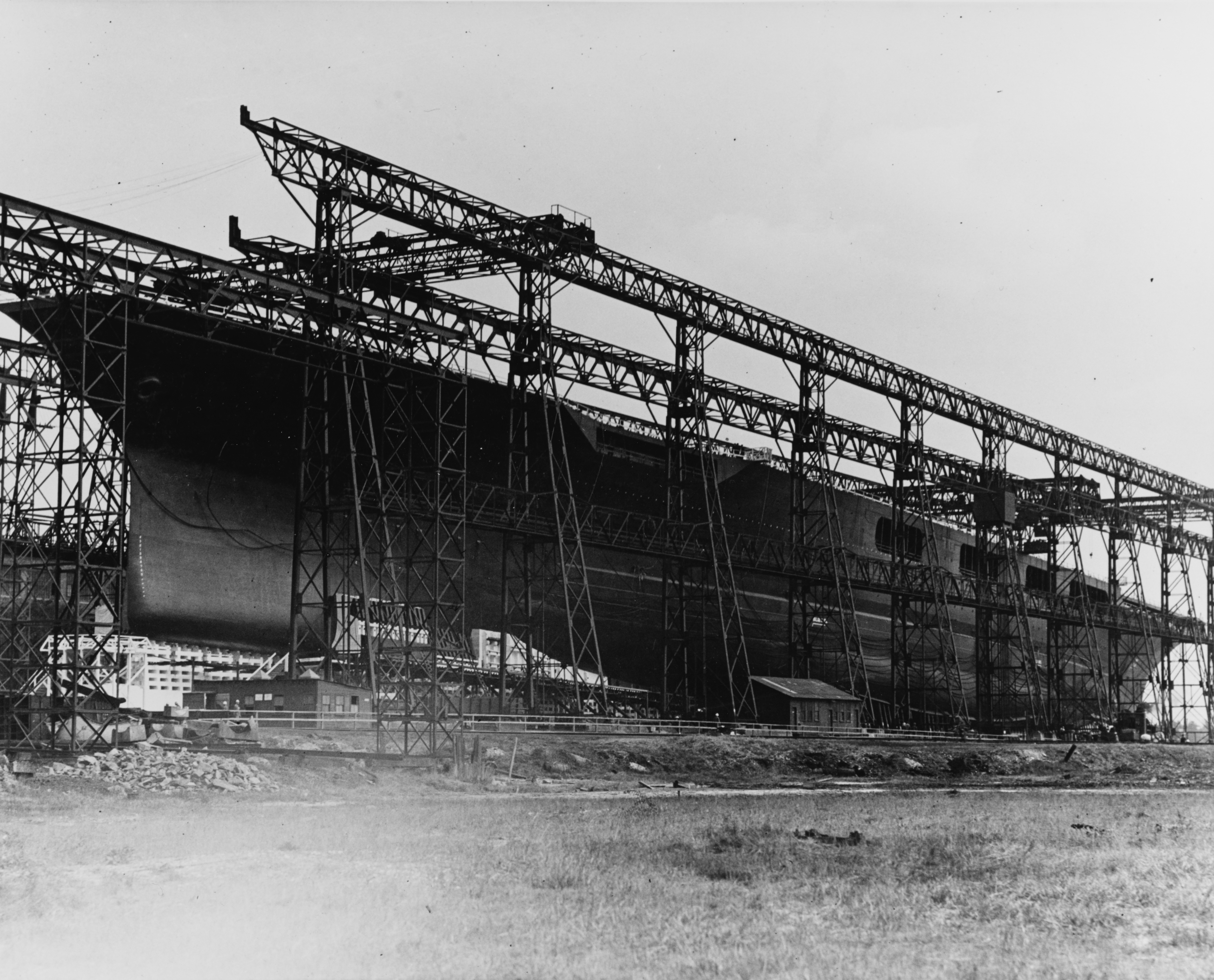 USS Lexington (CV-2) on the building ways at the Fore River Shipyard, Quincy, Massachusetts, shortly before her launching, circa late September or early October 1925.